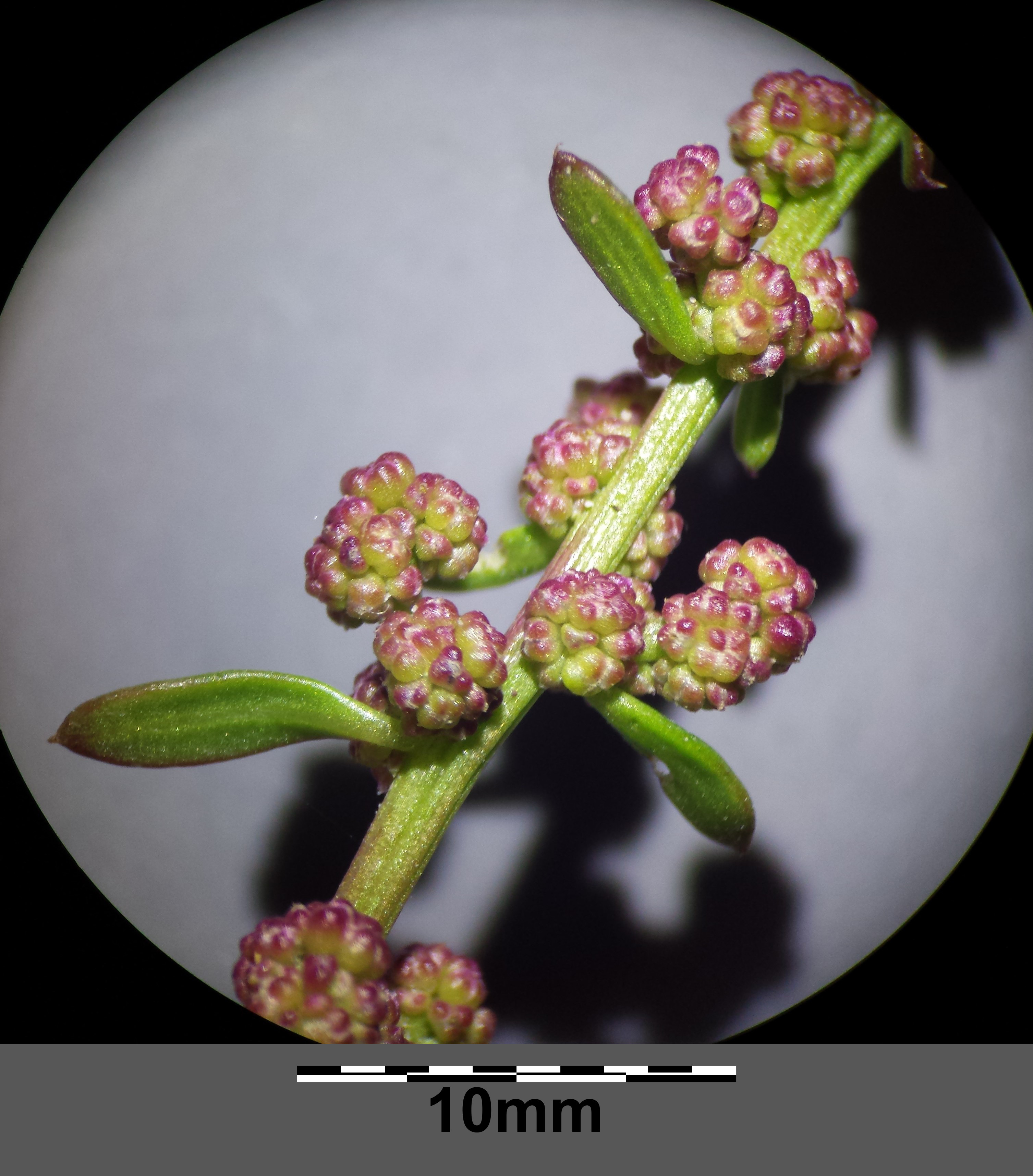 Inflorescence (detail) Taxonym: Chenopodium chenopodioides ss Fischer et al. EfÖLS 2008 ISBN 978-3-85474-187-9 Location: Sechsmahdlacke (Seewinkel), district Neusiedl am See, Burgenland, Austria - ca. 120 m a.s.l. Habitat: salt lake